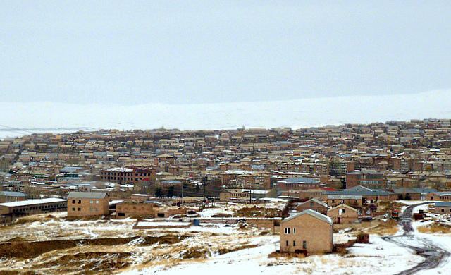 Main view of Artik city.